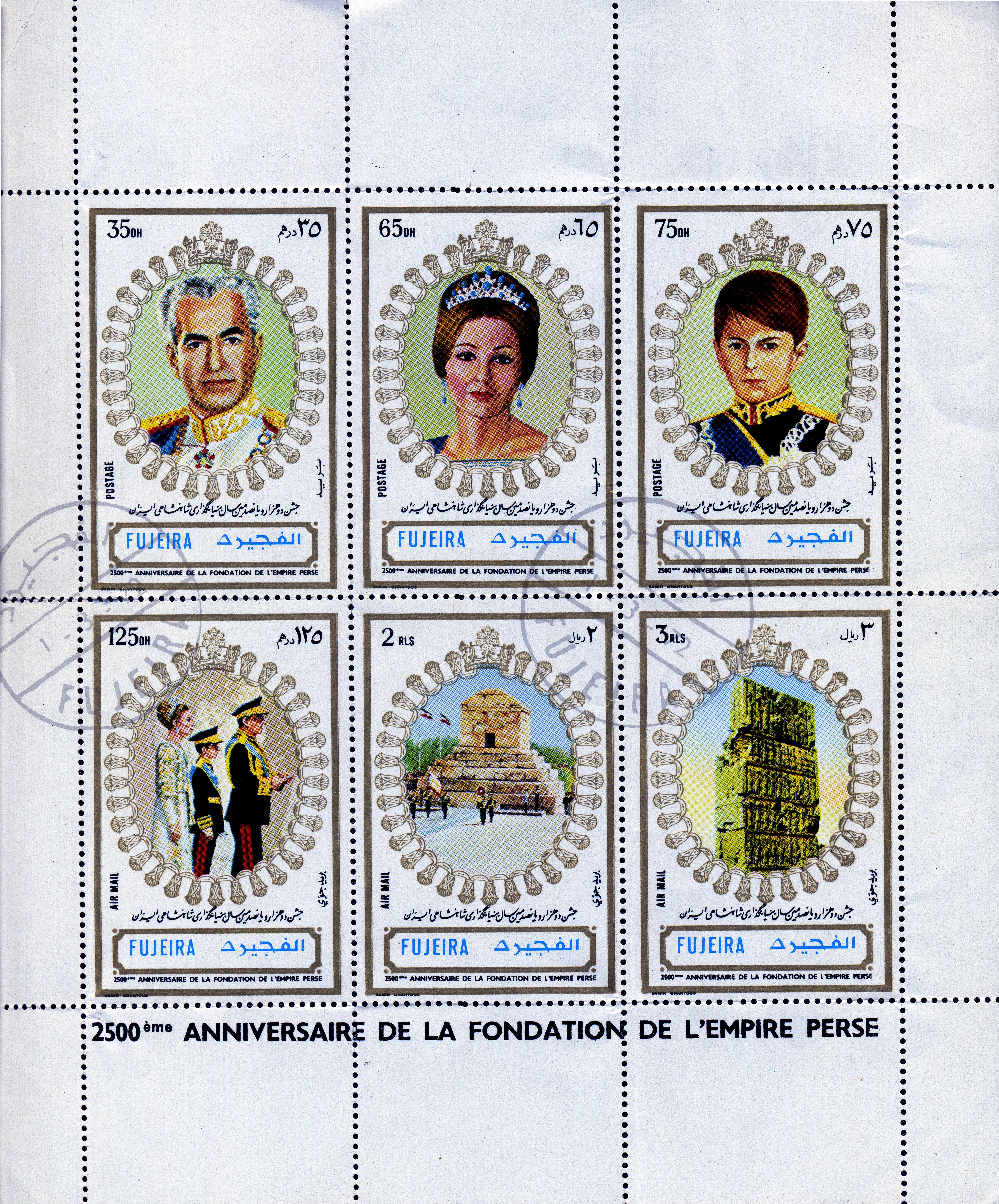 Stamp of the United Arab Emirates. These have been cancelled to order by unobtrusive corner cancels.